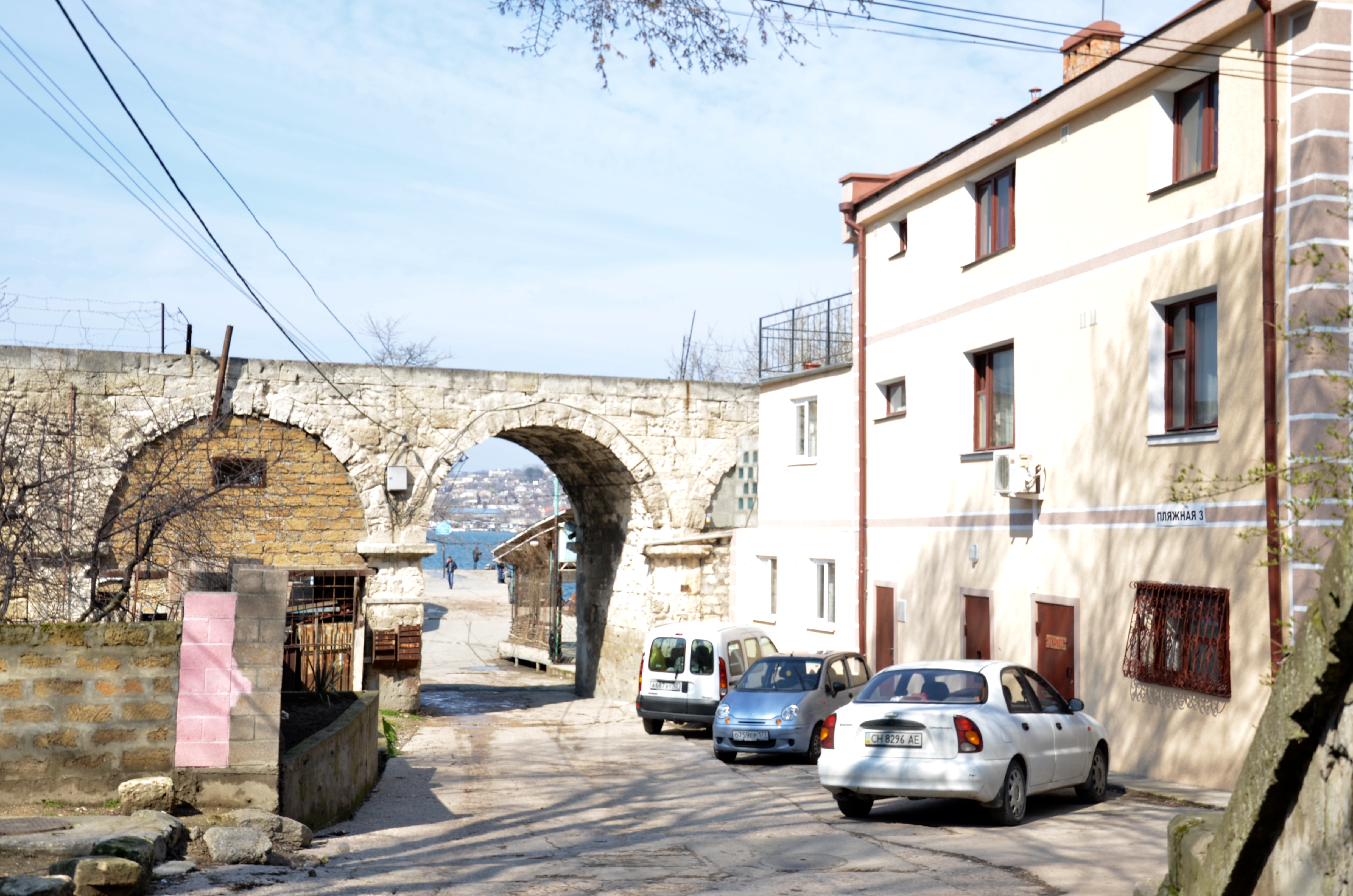 Aqueduct in Apollonova Gully